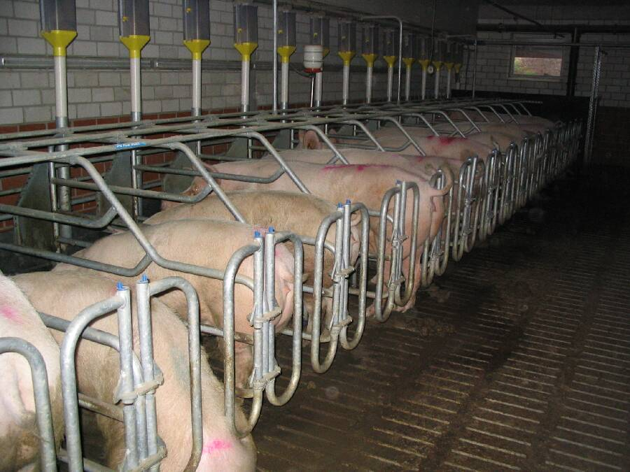 Sows in hutch stalls